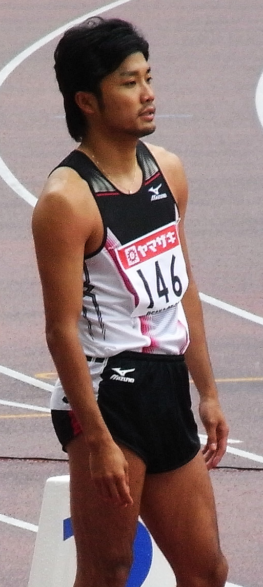 Shingo Suetsugu is a Japanese athlete.